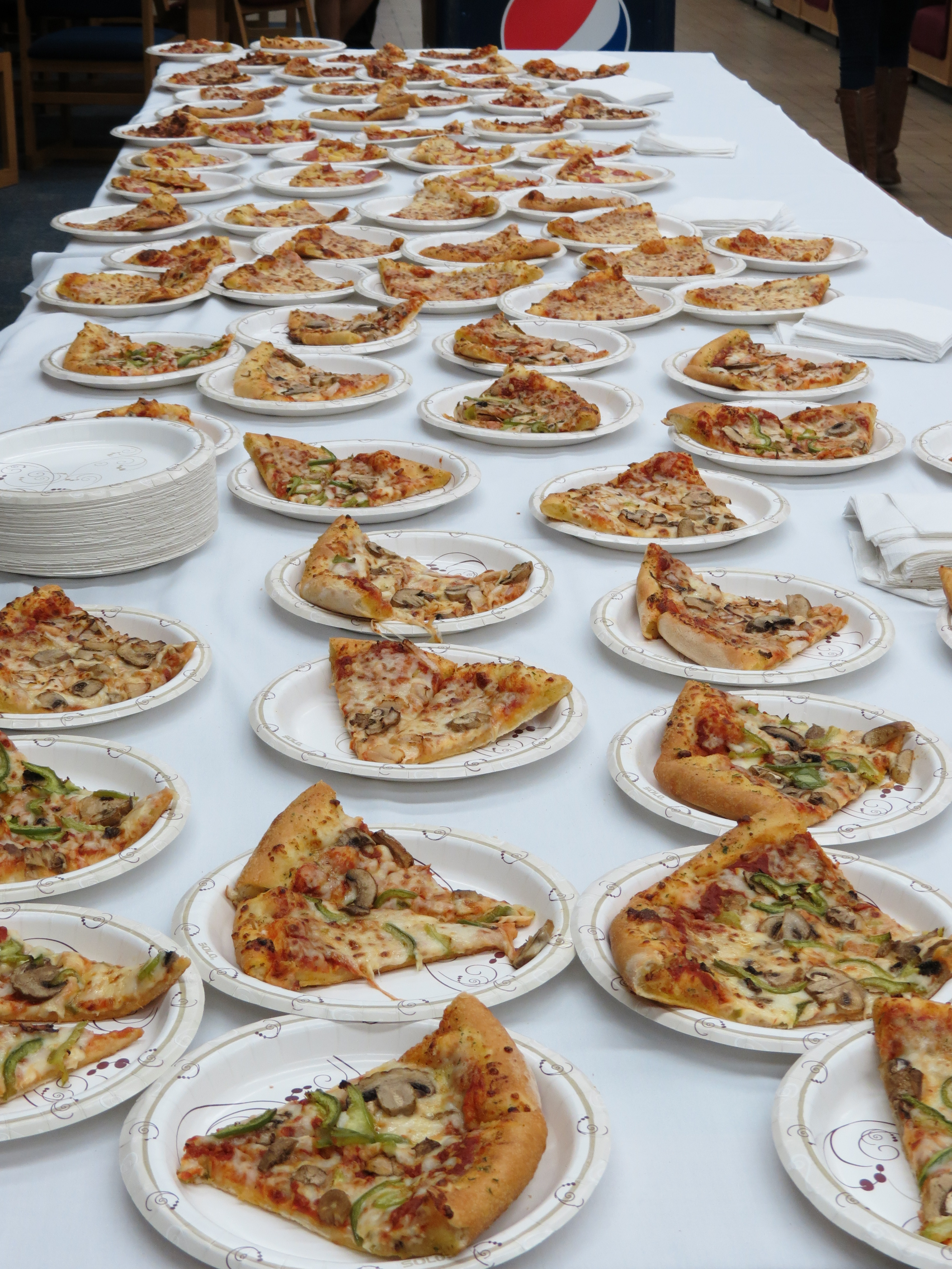 Thanks to all our food donors!